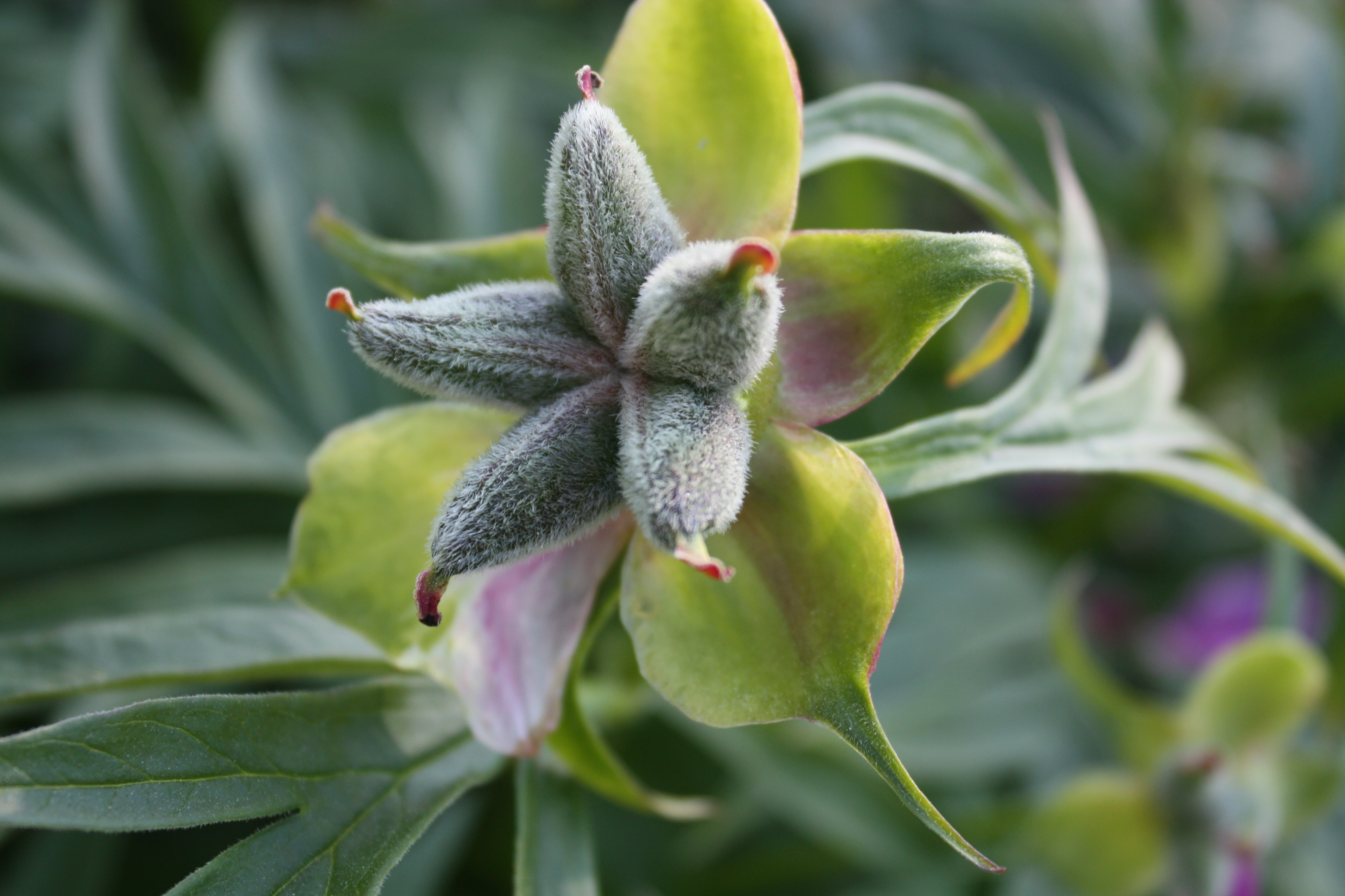 Paeonia anomala is flowering in the Outdoor Garden of Gardenia-Helsinki in Finland.